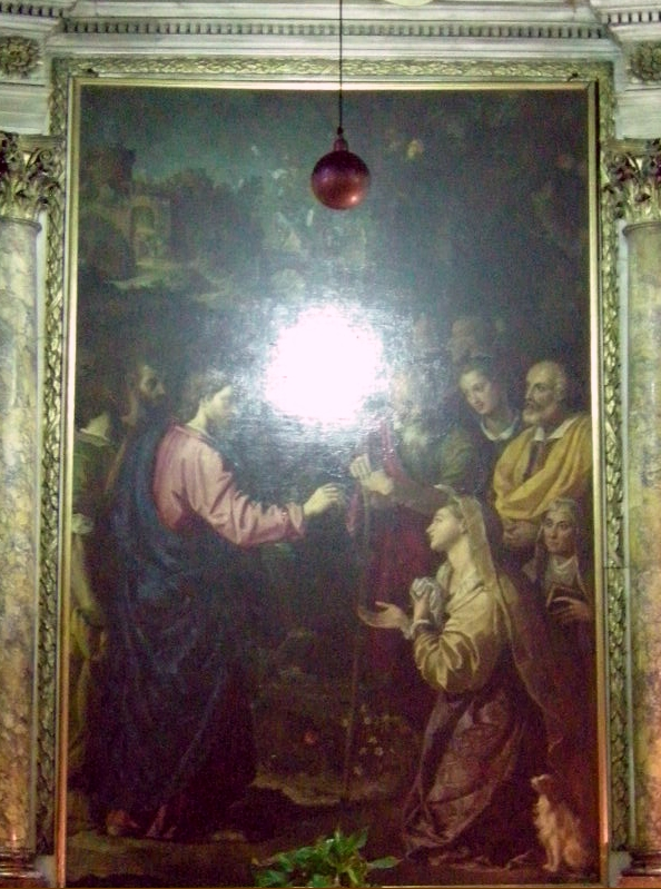 Christ and Canaanite woman by Alessandro Allori. Comissioned by Bartolomeo Ammannati for funeral of his wife poetess Laura Battiferri (painted as old woman with the book)